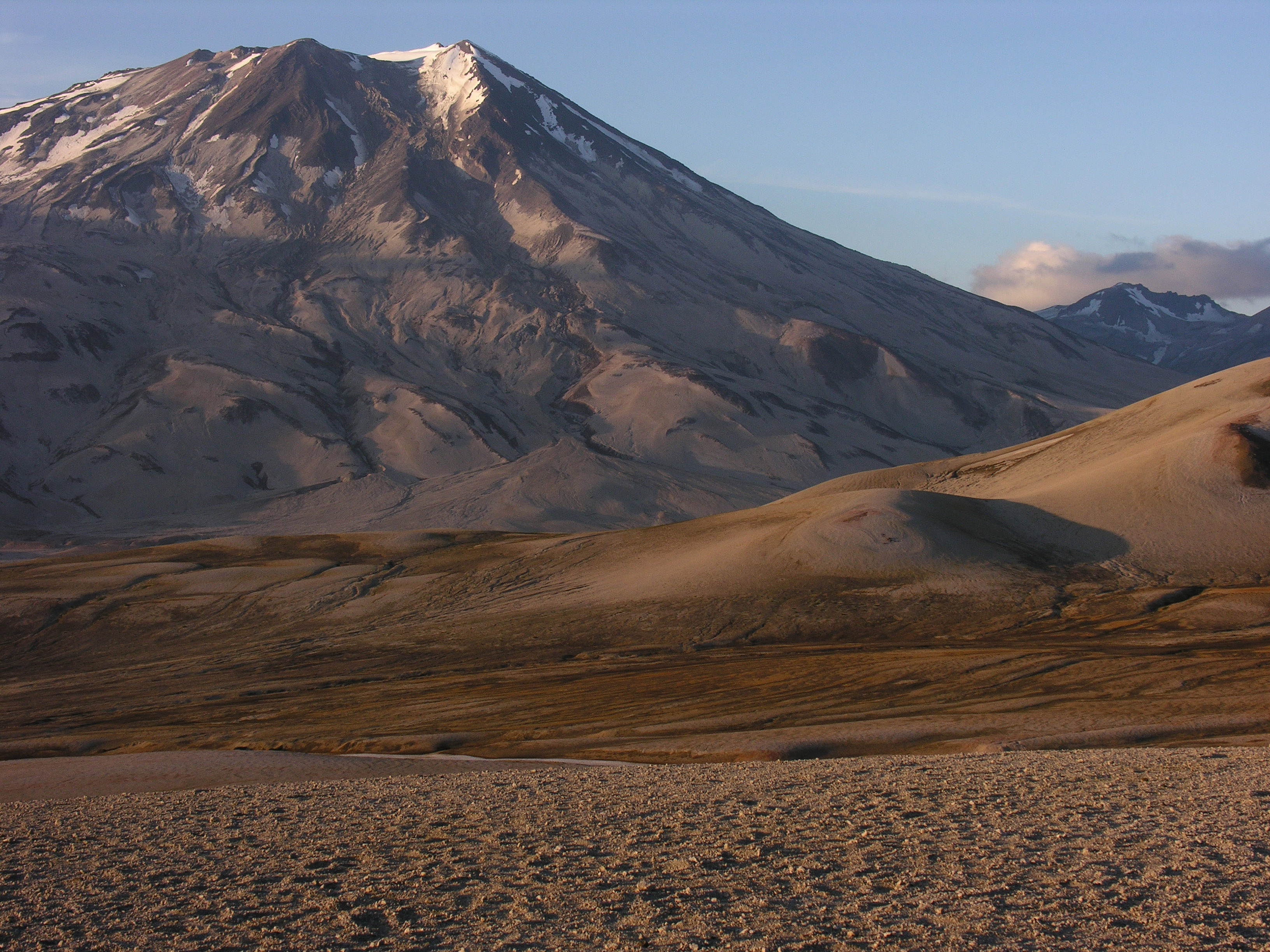 Mount Griggs is named after Robert Griggs "discoverer" of the Valley of Ten Thousand Smokes. Through the National Geographic Society and his efforts, Katmai National Monument was established in 1918 to preserve this volcanic wonderland.